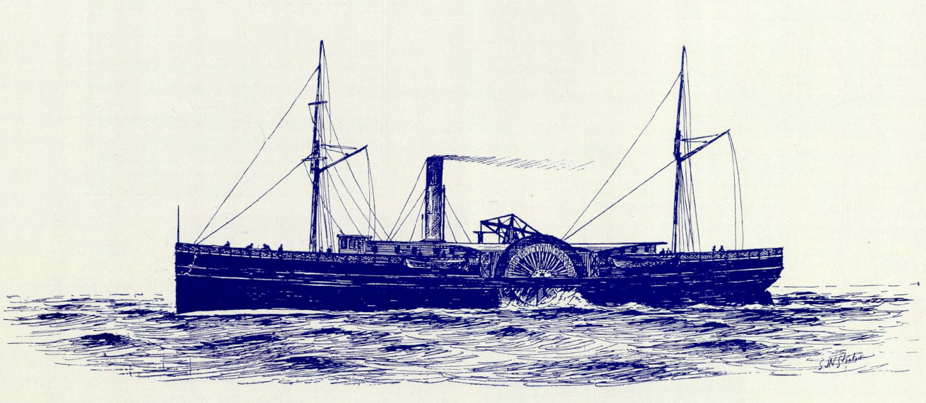 S.R. Spaulding, steamship, served on the Atlantic coast of the United States, was a transport during the American Civil War, and was later renamed San Salvador and worked in the West Indies.